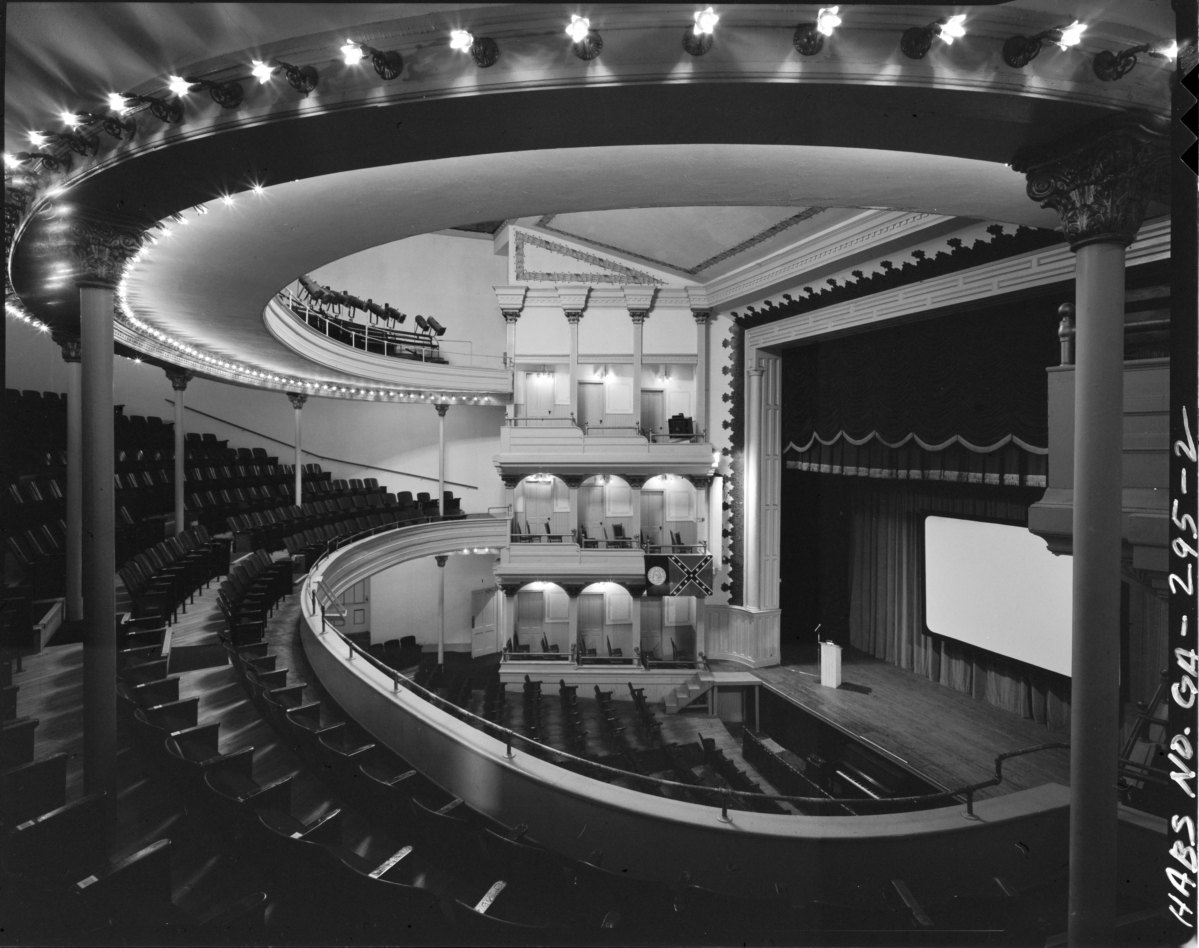 Springer Opera House - Interior (Columbus, Georgia) (cropped)